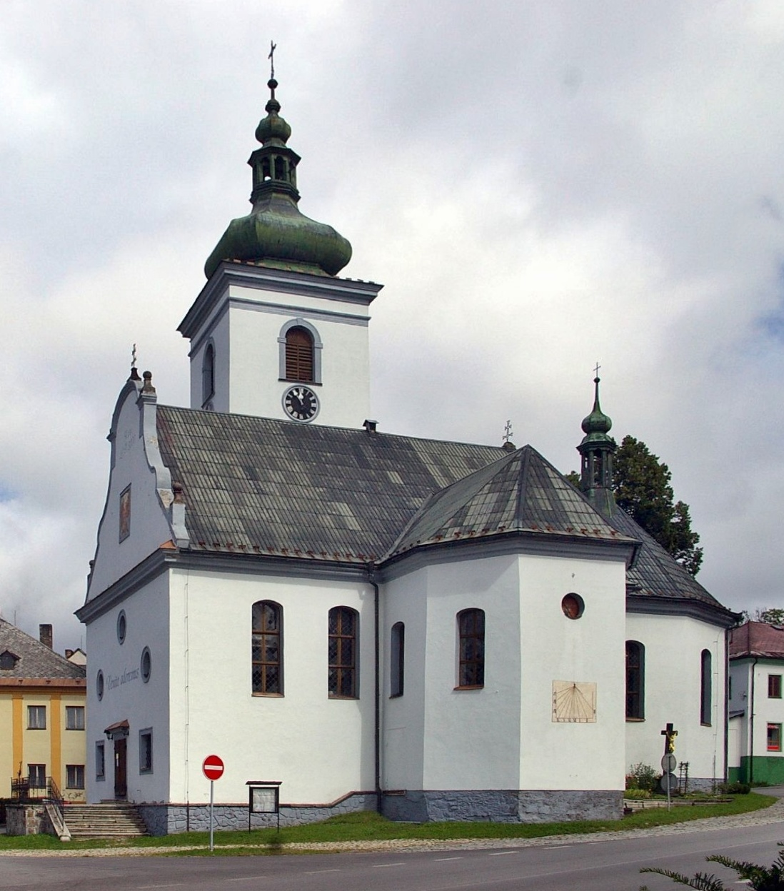 St Catherine church in Volary, Prachatice District, Czech Republic.